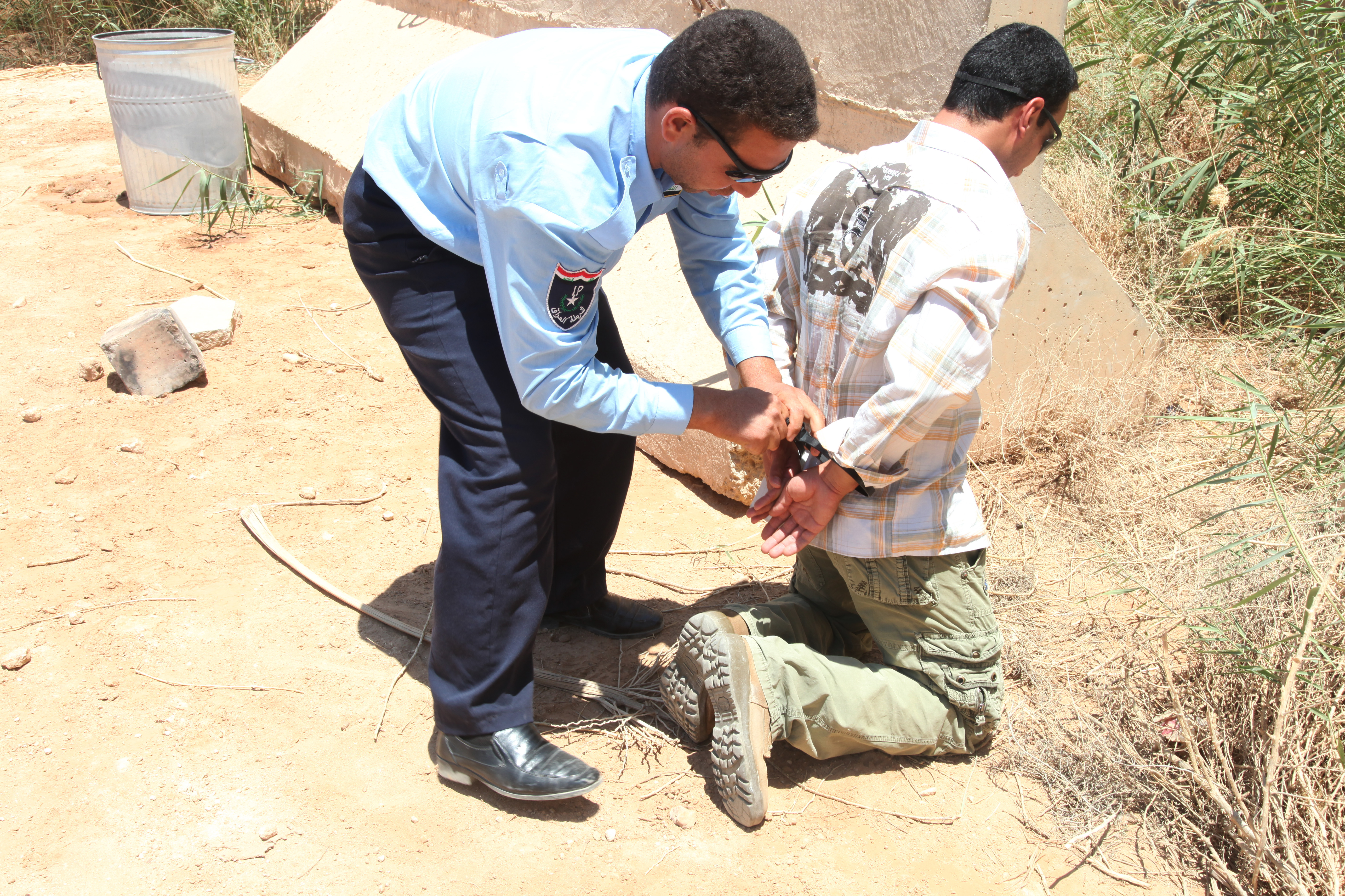 An Iraqi police officer detains a suspect during a crime scene exploitation training exercise held at Asad Air Base, Iraq, July 6, 2011. The U.S. Army’s 2nd Advise and Assist Brigade, 82nd Airborne Division, conducted the training.